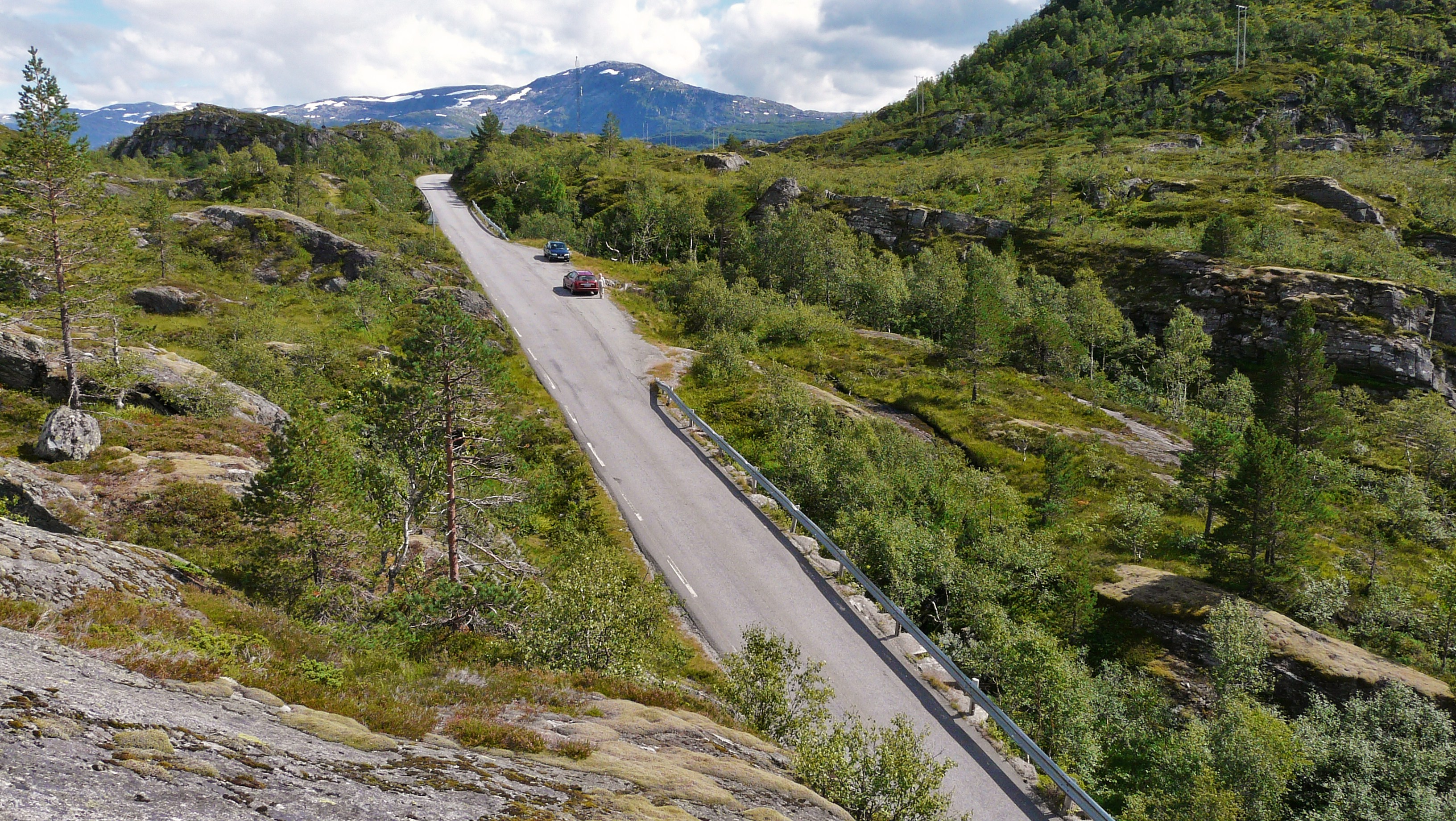 A view to the Riksvei 13 -road on Rørvikfjellet towards the southeast in 2008 August.